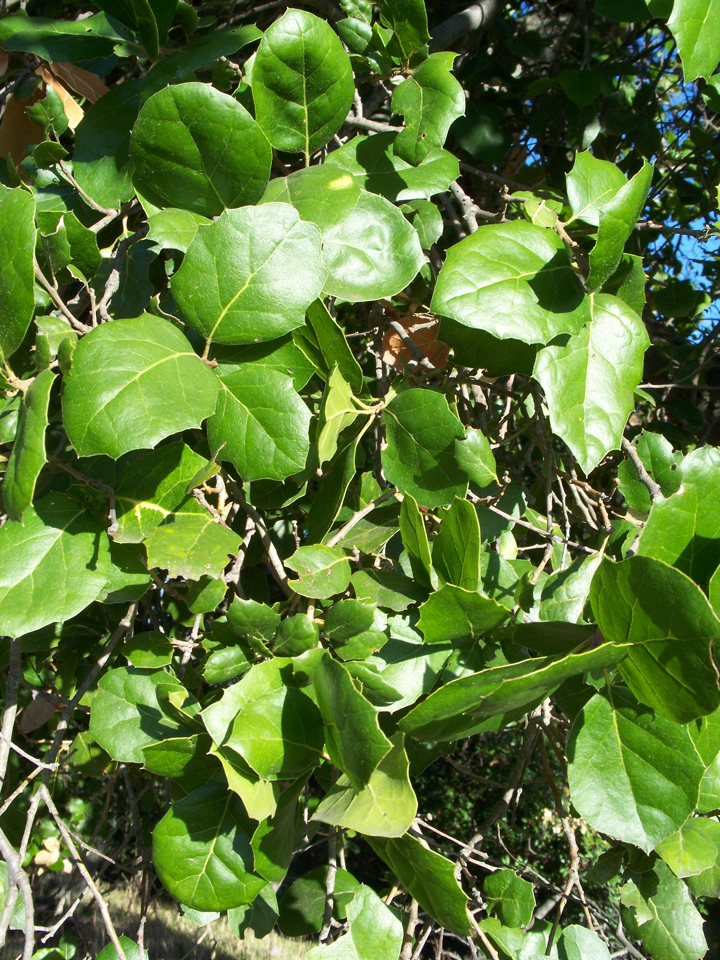 Coast Live Oak